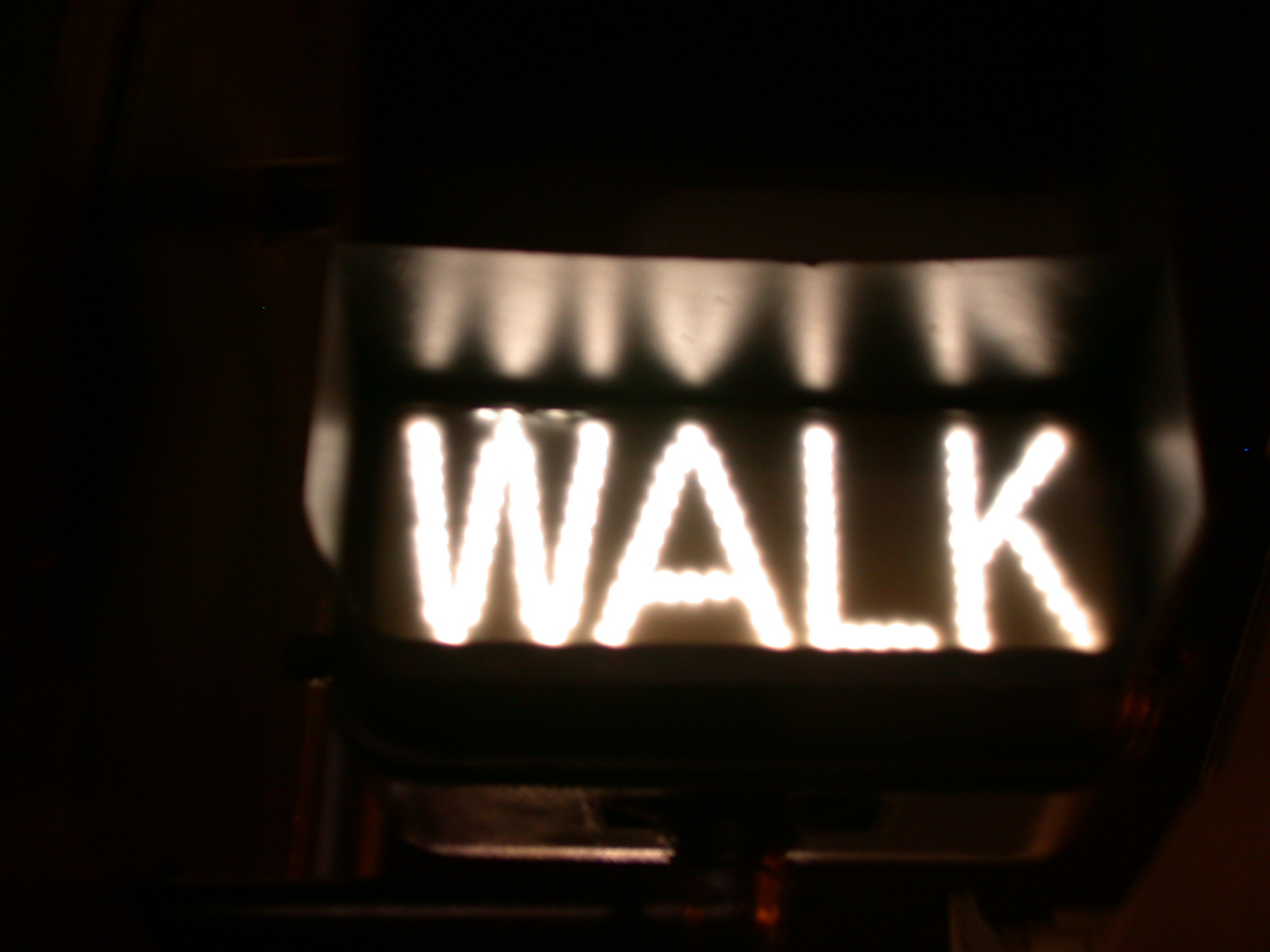 Traffic Signal "Walk", New York City